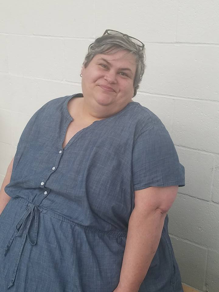 Native Feminist Angie Morrill